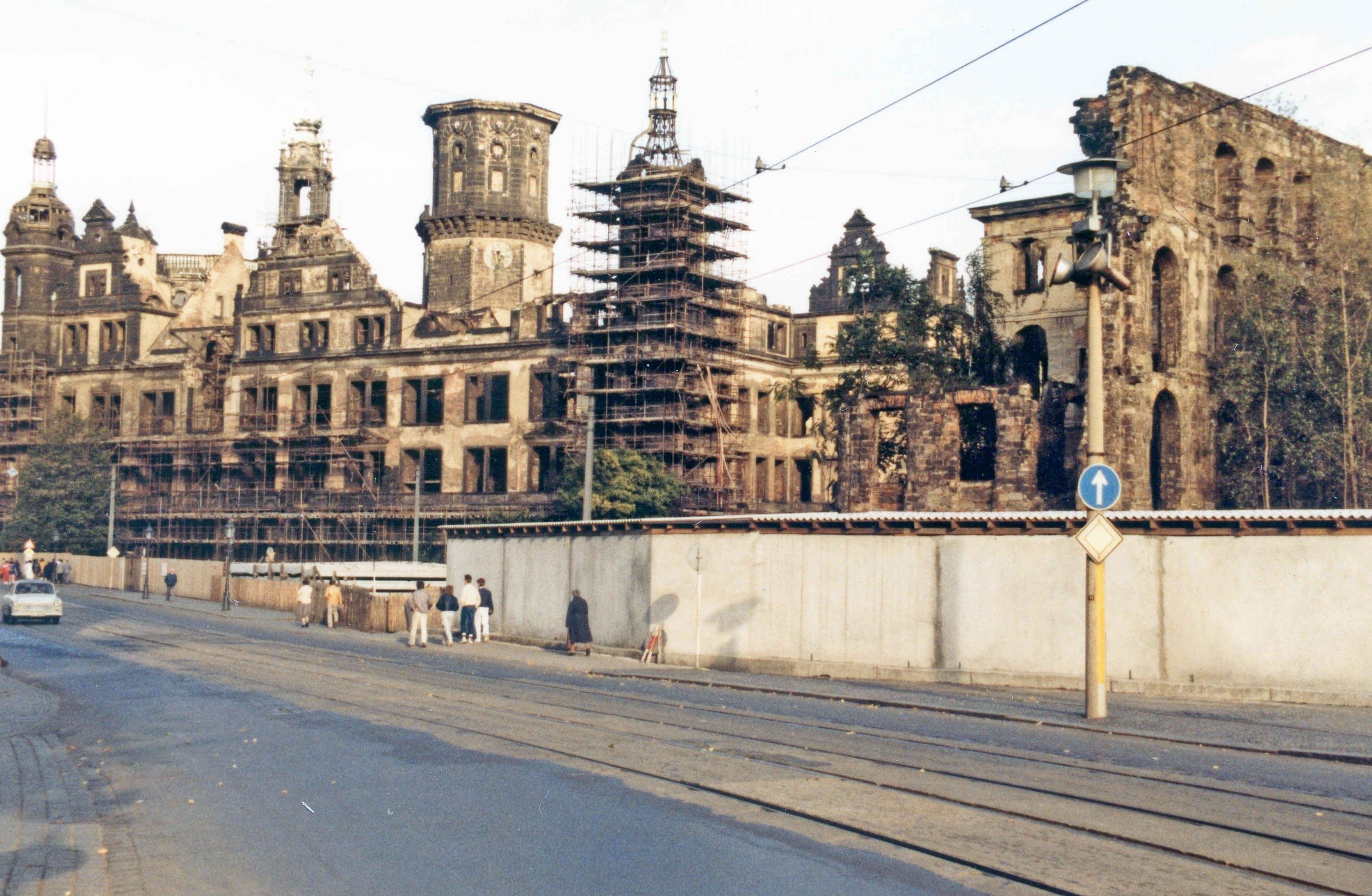 Dresden Castle during the times of the German Democratic Republic (GDR), october 1985